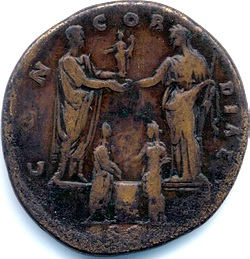 Betrothal of Marcus Aurelius with Faustina the Younger in 139. Reverse side of a sestertius minted under Antoninus Pius.